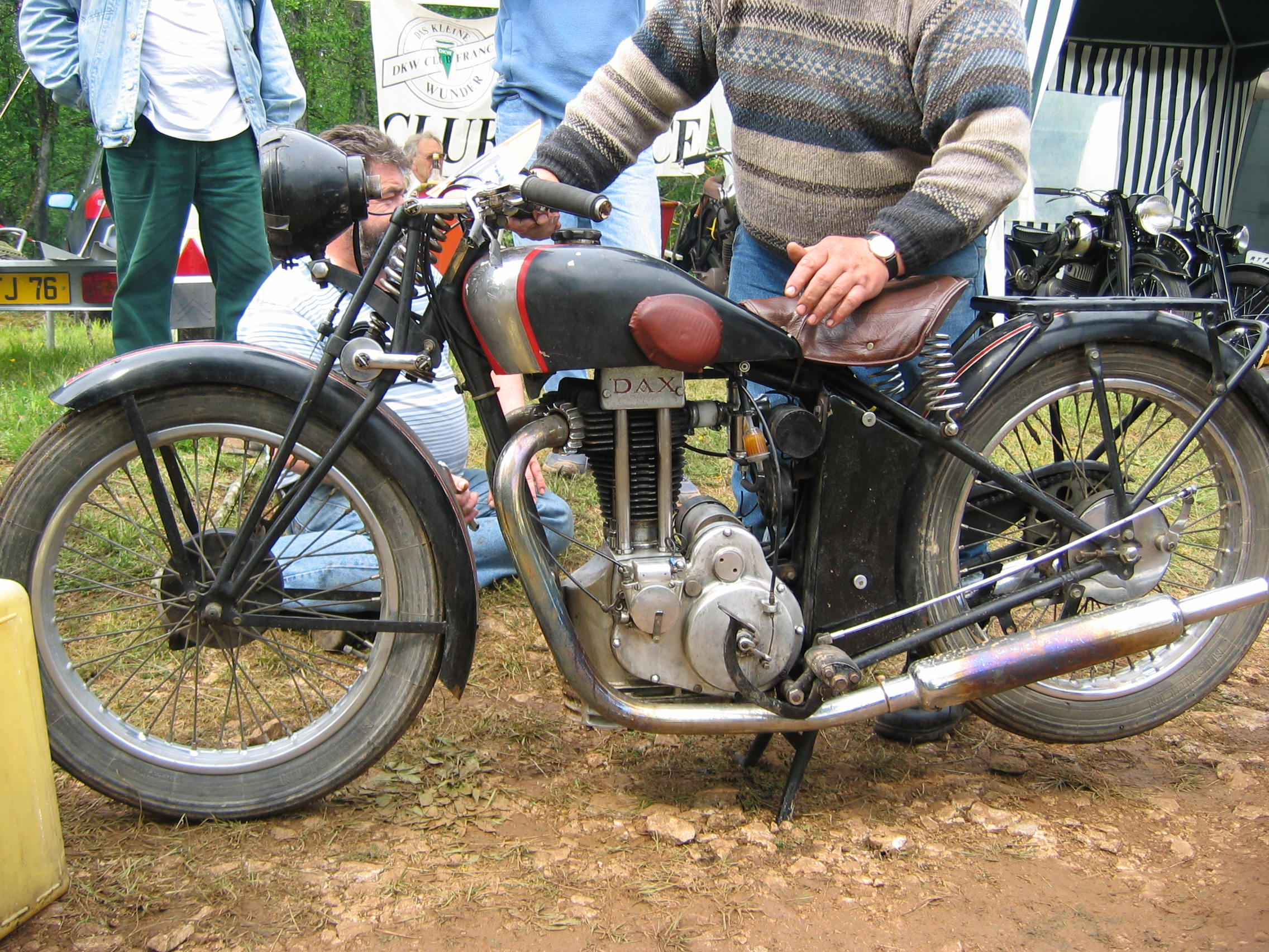 French Dax Motorcycle 350 cm3 Photo : Gérard Delafond